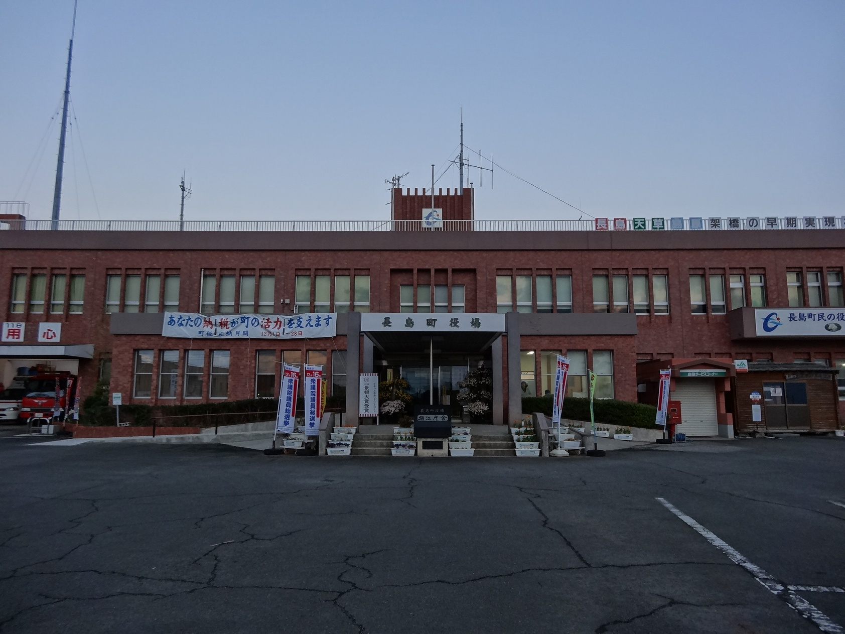 Nagashima Town Office Sasue Branch, former Nagashima Town (1889-2006) Office (December, 2012 - Kagoshima Prefecture, Japan)